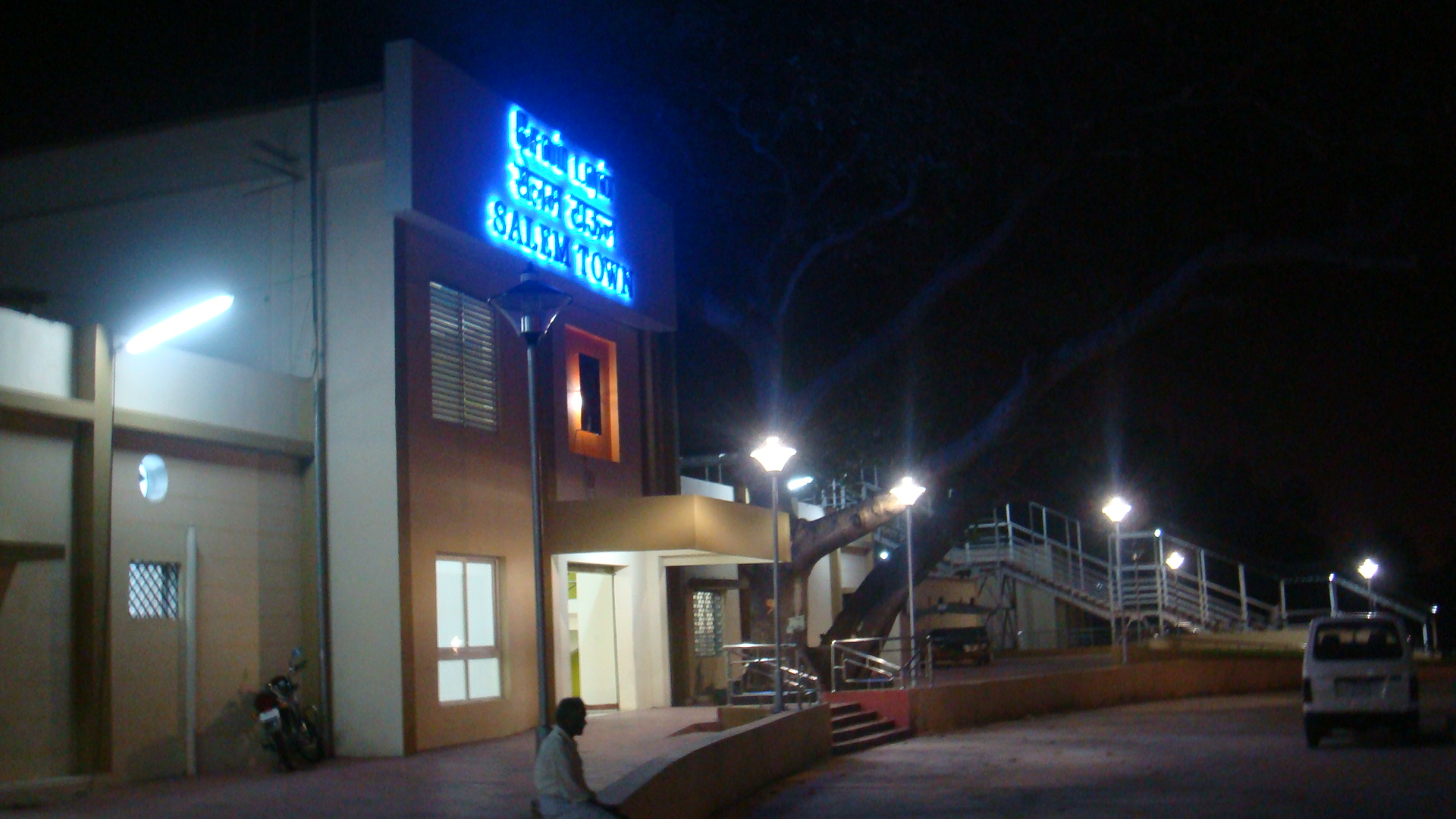 Salem Town Railway station